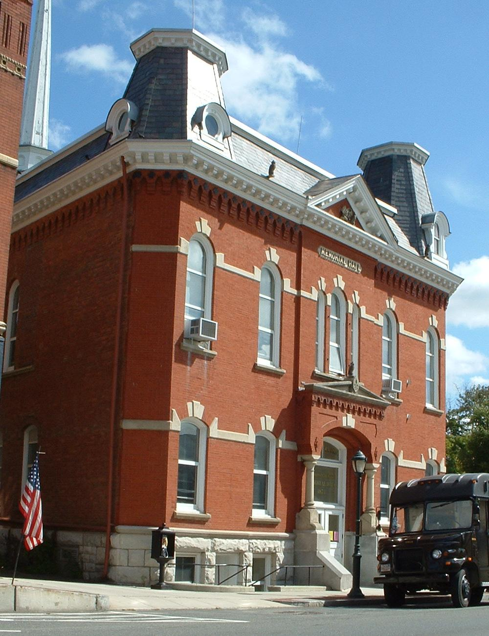 Lee Town Hall, Lee, Massachusetts Lee Town Hall, Main St (Rte. 20), Lee, MA